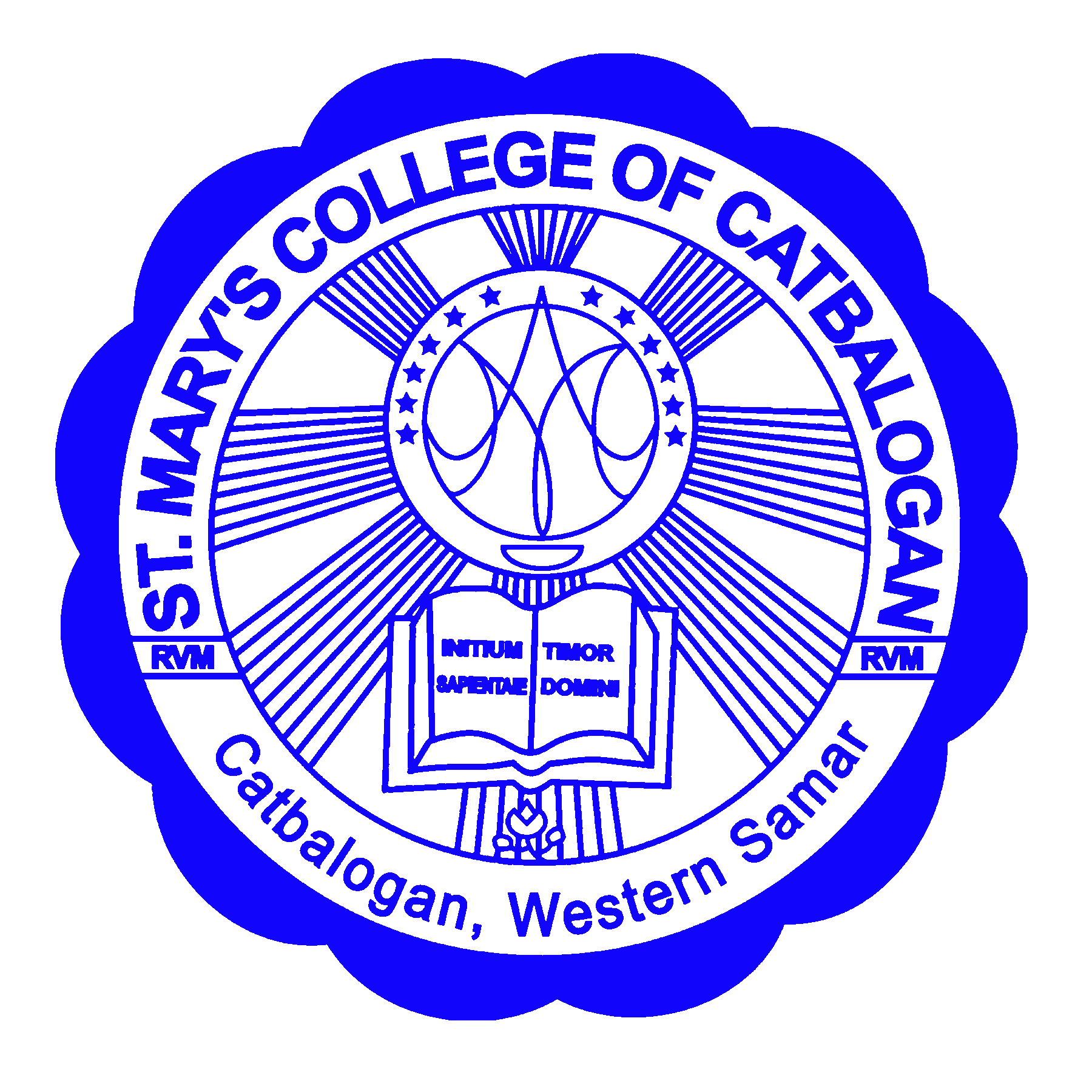 Winaray : Saint Mary's College Of catbalogan Logo